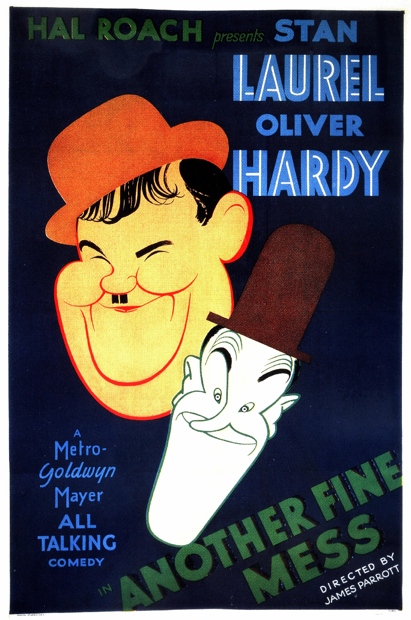 Poster for the 1930 film Another Fine Mess. The item has no copyright markings on it as can be seen in the links above. At bottom right is T-1510-this probably refers to the printing of the poster. At bottom left is Country of origin USA.